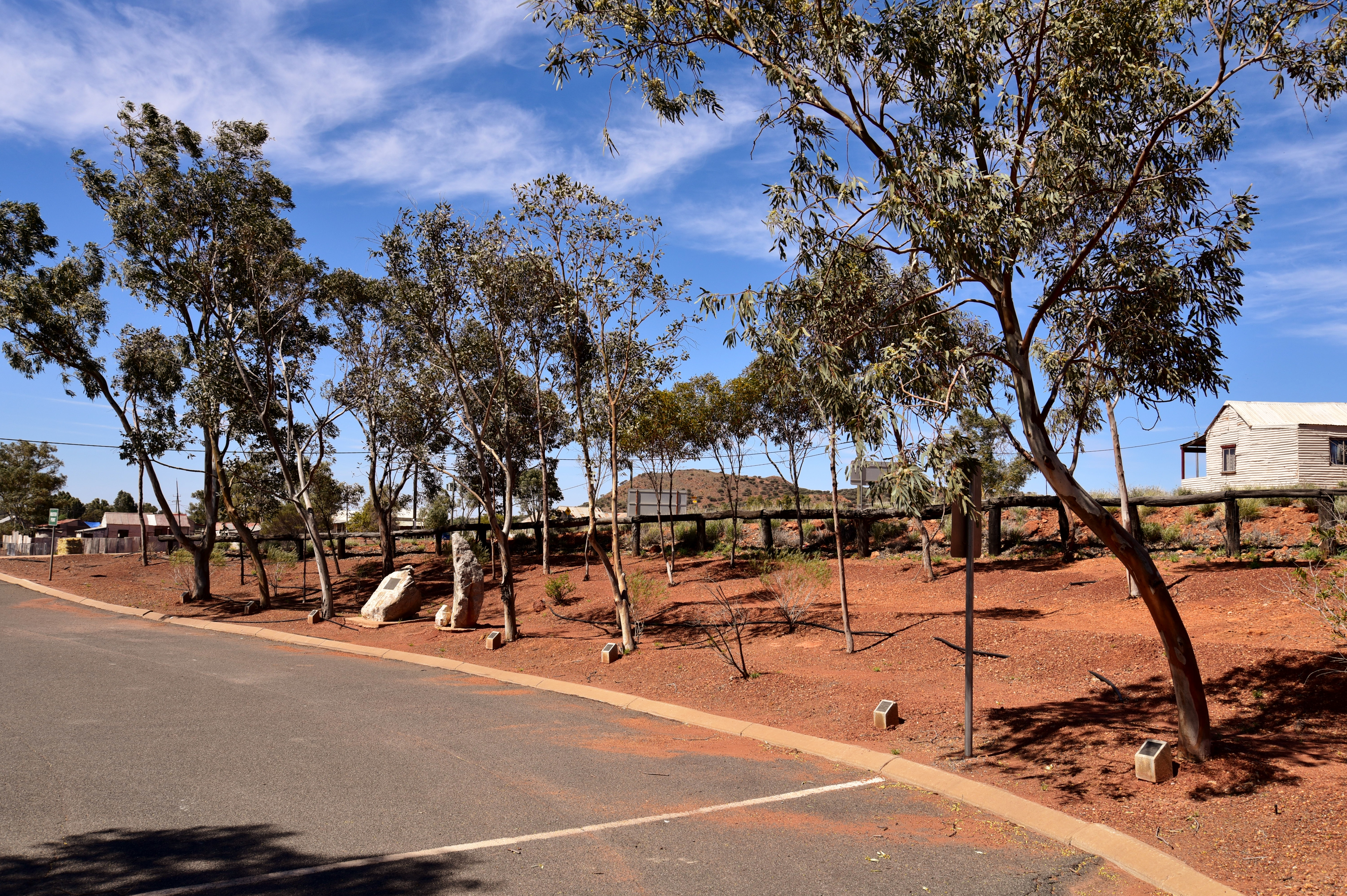 View of the memorial at the former office of Sons of Gwalia in Gwalia, Western Australia to the victims of the so-called "Ghost Flight" accident (2000 Australia Beechcraft King Air crash) on 4 September 2000. The plaque reads:"A memorial to those employees of "Sons of Gwalia" who lost their lives in an aircraft accident on 4th September, 2000[list of the victims, including the pilot]A tribute from friends & work colleaguesMay they rest in peace"